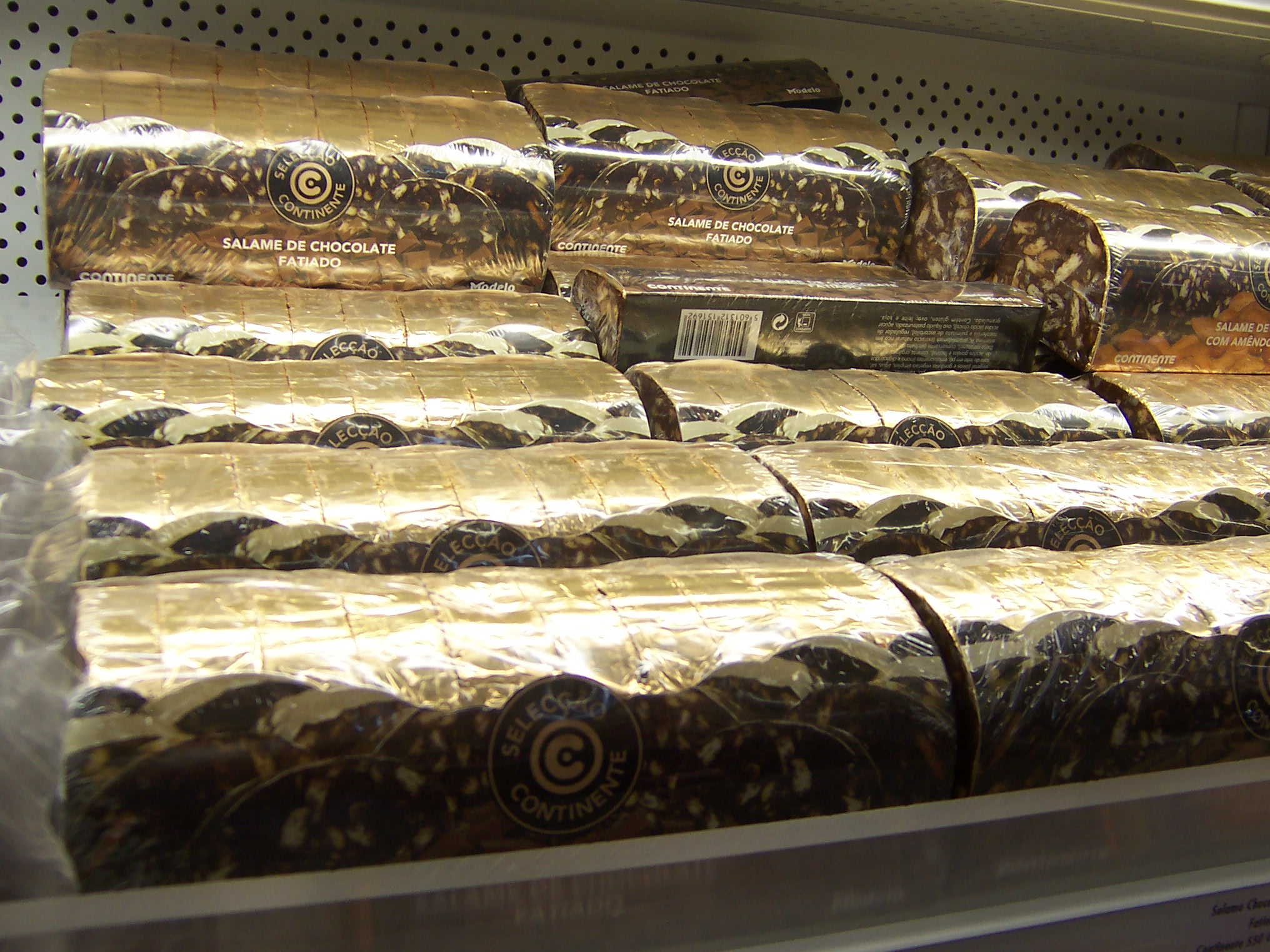 Packaged chocolate salami ("salame de chocolate") in Portuguese supermarket.